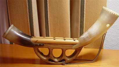 Alboka basque traditional music instrument.